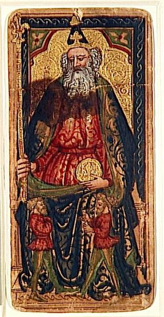 The Emperor - the only surviving trump card of the so-called Rothschild Tarot, 15th century.